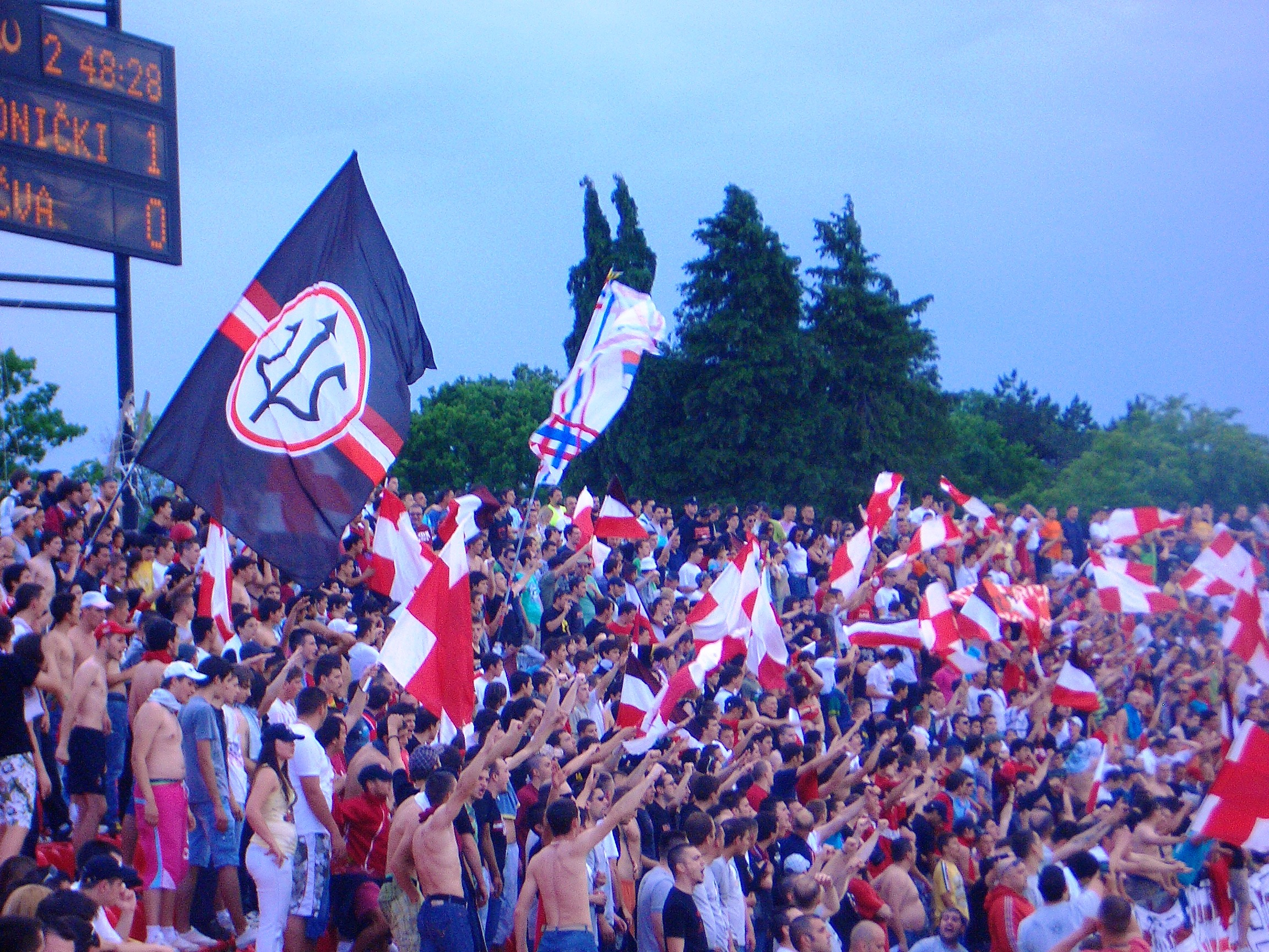 Supporters of Šumadija Radnički 1923 from City of Kragujevac are known as Red Davils.